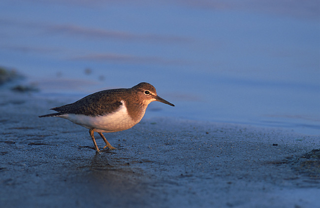 Actitis hypoleucos